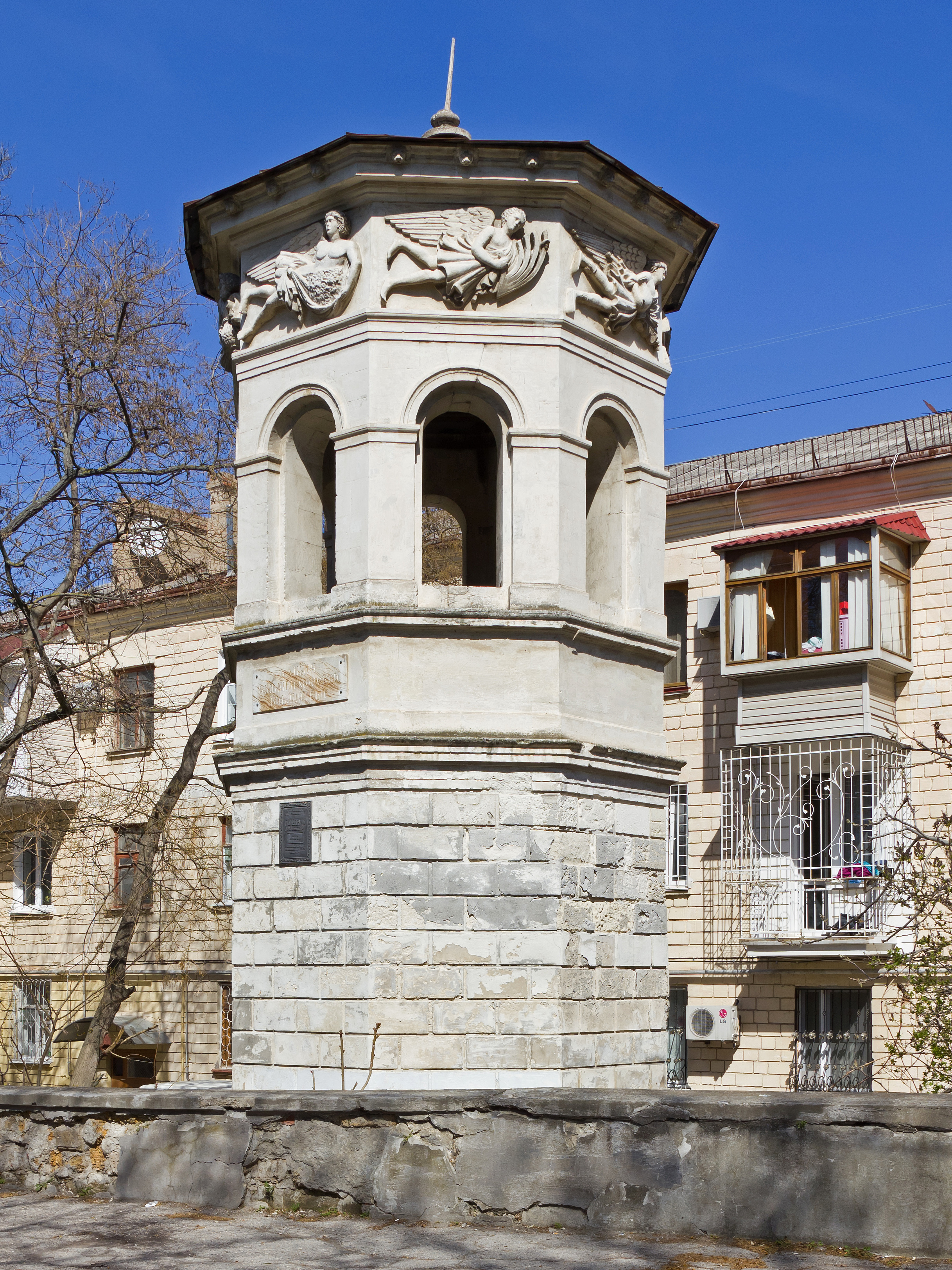 Tower of the Winds (Marine Library Tower) in the Federal City of Sevastopol. Crimean peninsula.